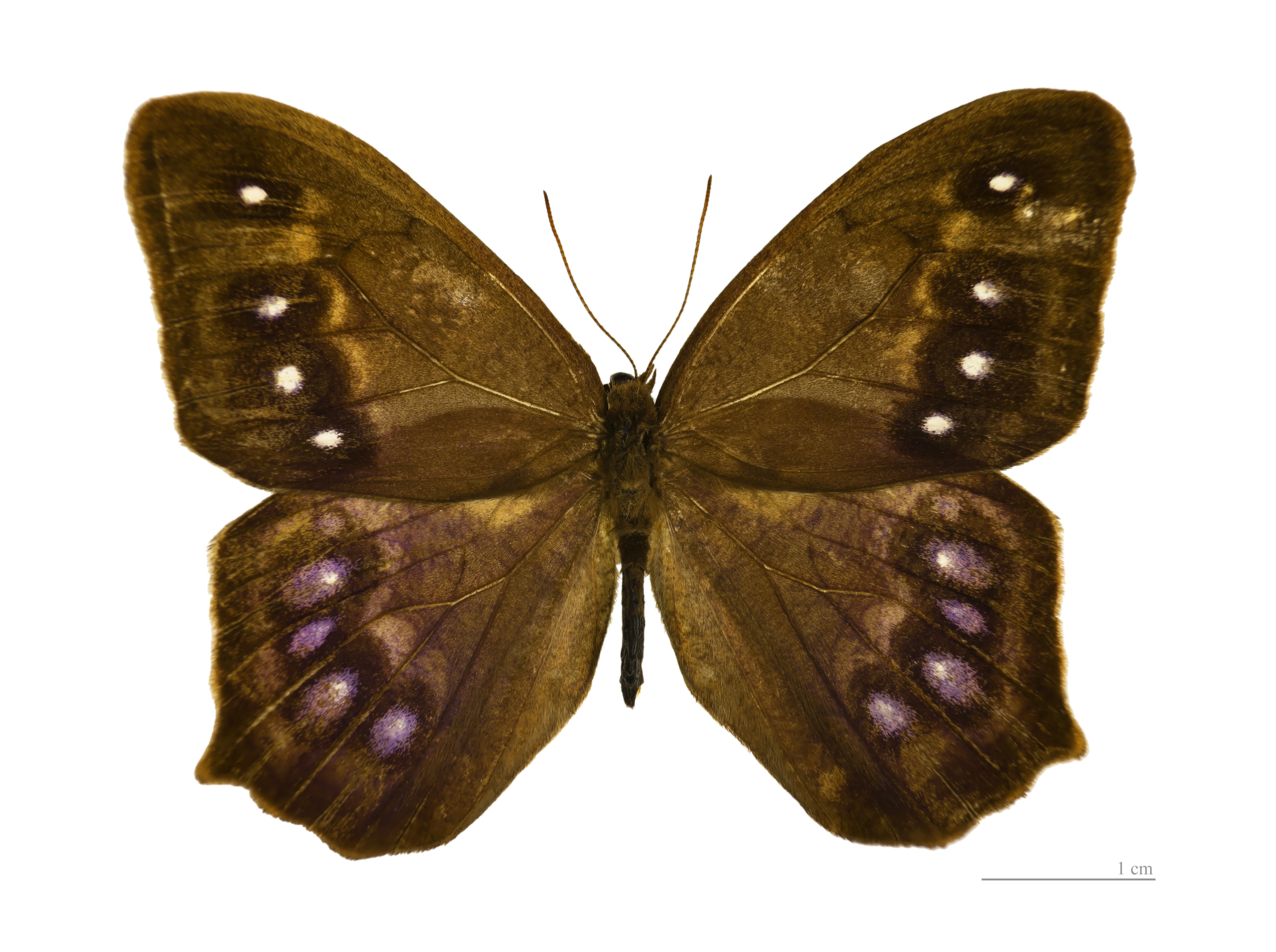 Antirrhea ornata - Dorsal side